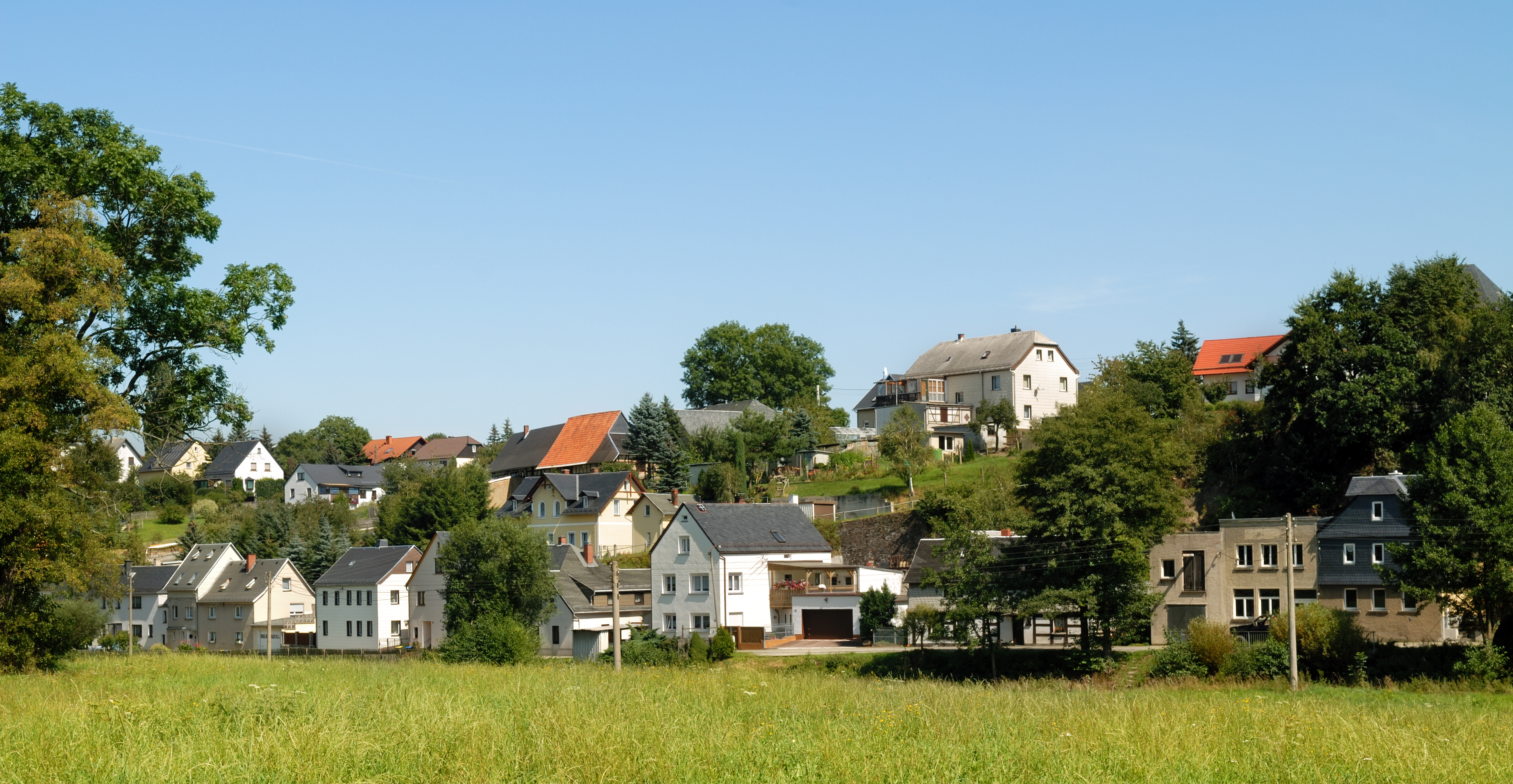 This image shows the township Langenwetzendorf, Germany.